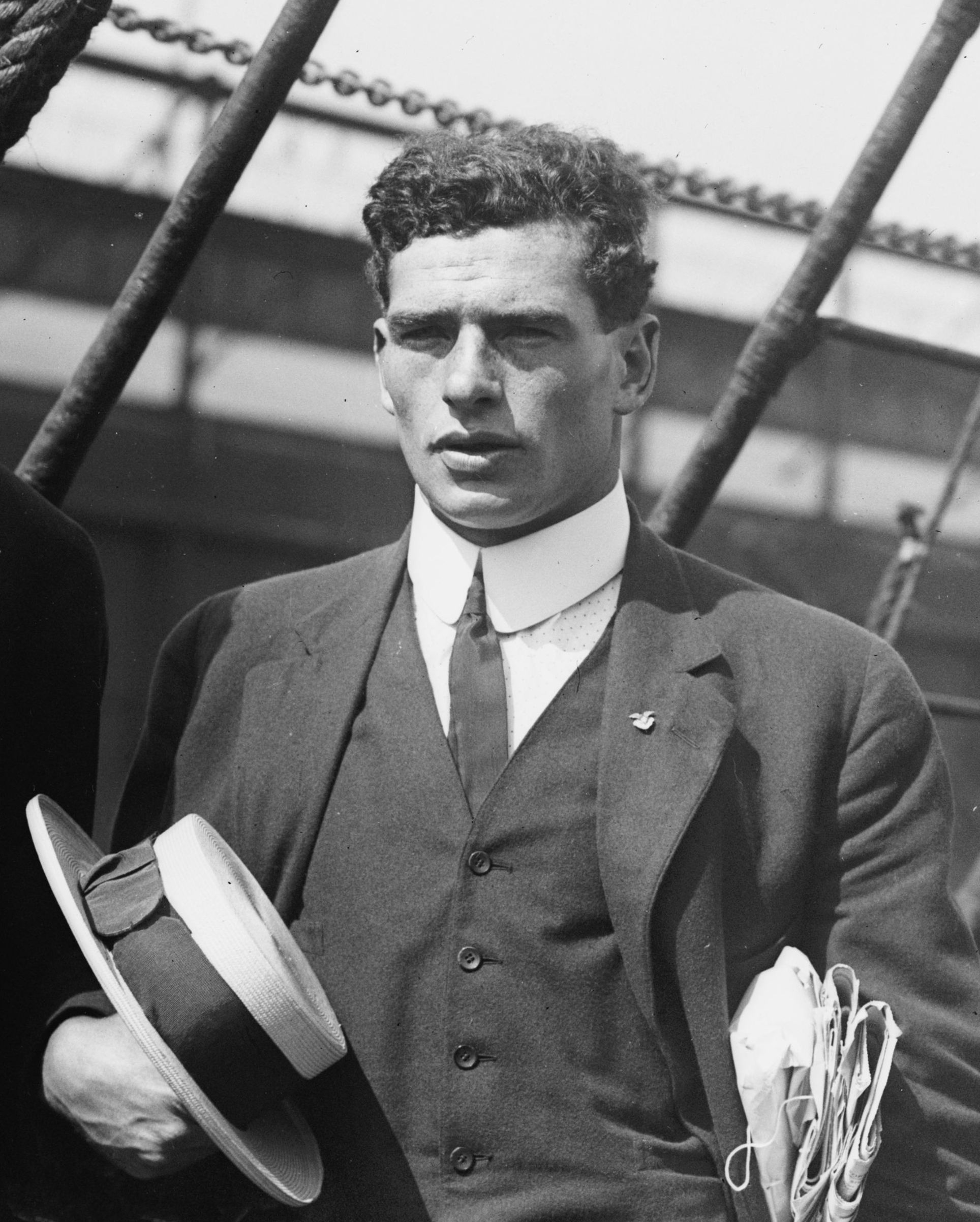 James Duncan (athlete)